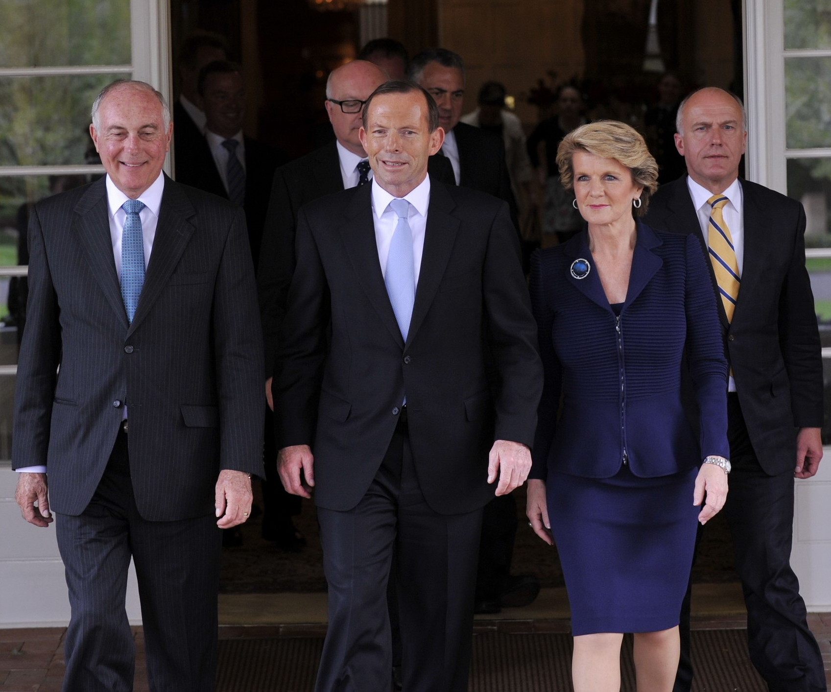 Prime Minister Tony Abbott and Ministry leaving the swearing in ceremony